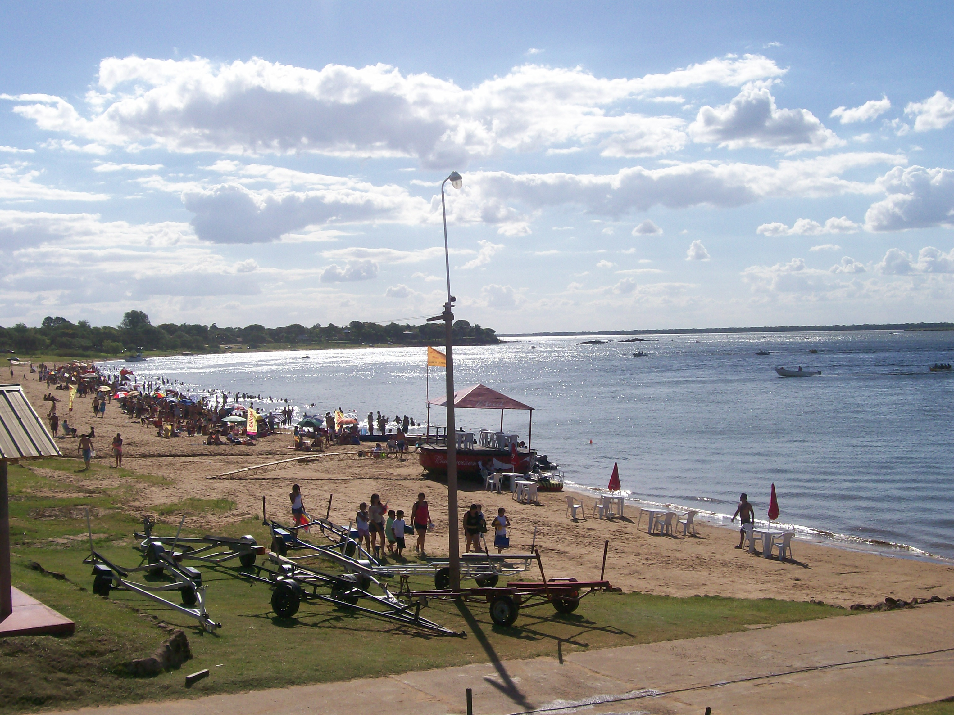 Playa Pelícano (Pelican Beach) in January, Paso de la Patria, Corrientes Province, Argentina. Parana River has a very low level of water. You can see in the back Cerrito Island land.